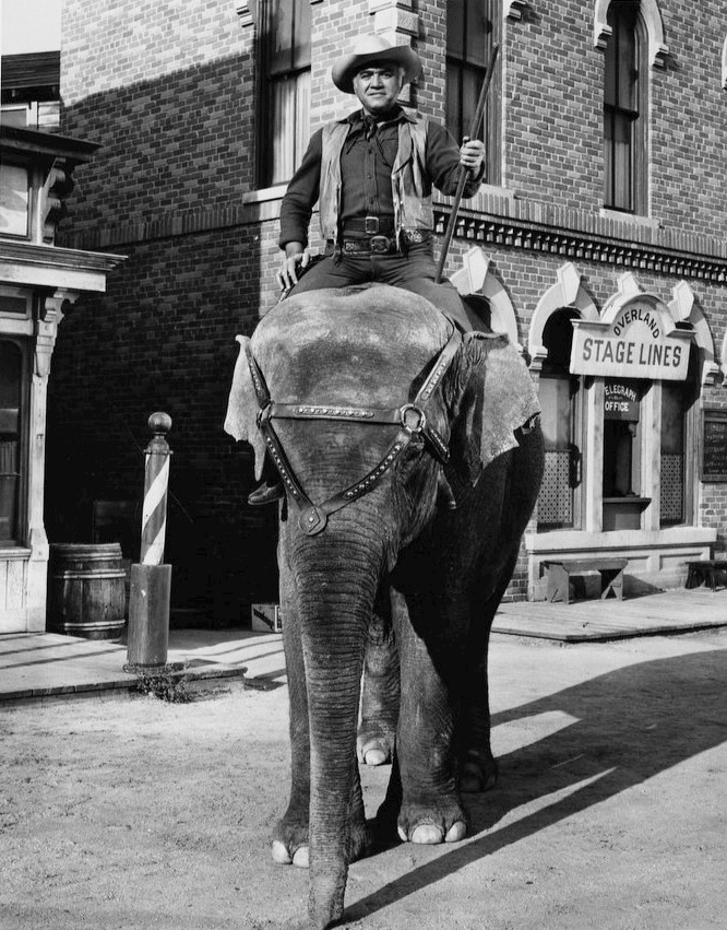 Photo of Lorne Greene from the television program Bonanza.